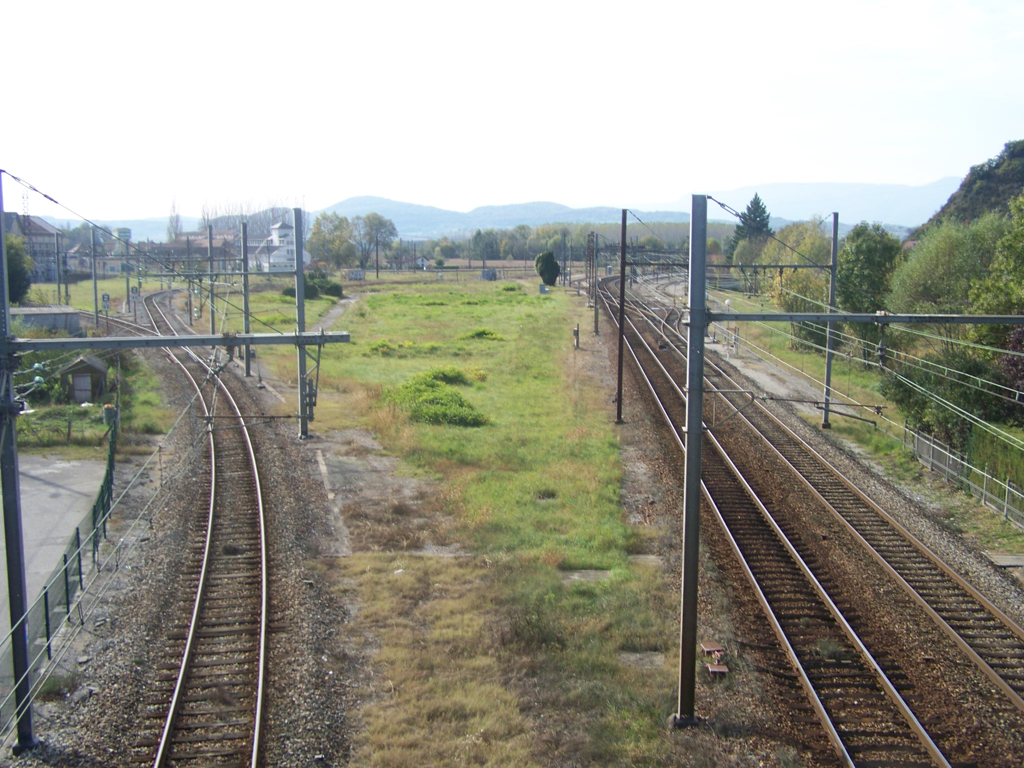 Arrival from Geneva at the city of Culoz railway station in Ain, France. The main line Geneva to Lyon is on the right. The first single track on the left joins the line to Chambéry and the second track on the left also joins this line but enables a stop at Culoz station.